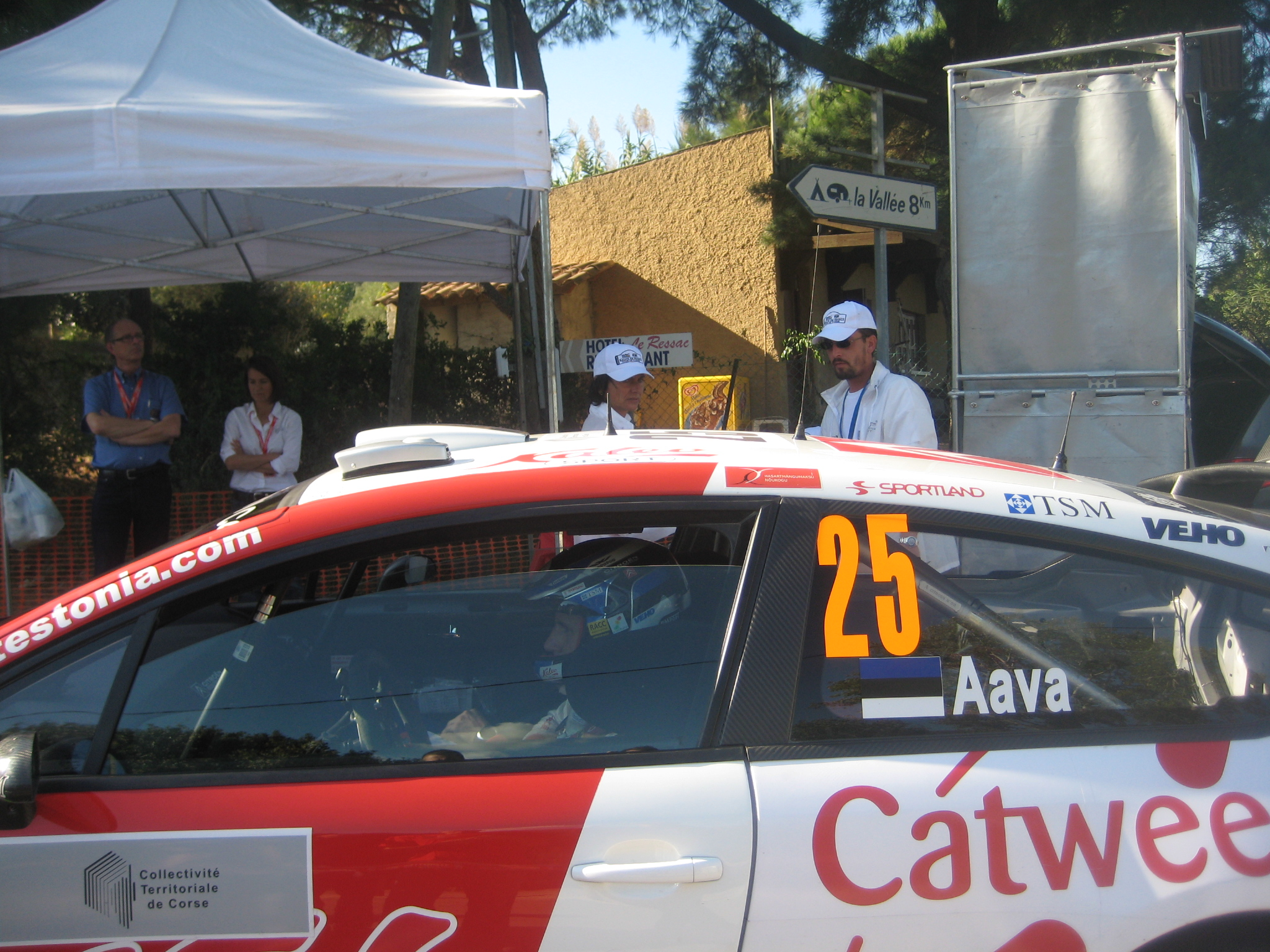 2008 Rallye de France, Day 1-SS5, Urmo Aava - Citroen C4 WRC